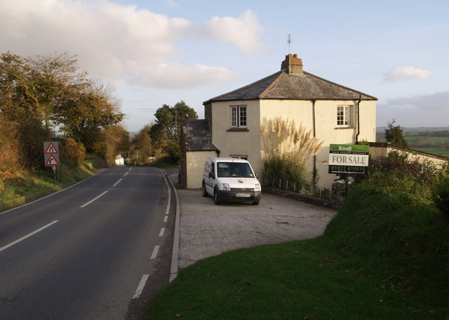 Former toll house, Dutson This C18 toll house is on the A388 north of Launceston, at the start of a descent to the Tamar valley.